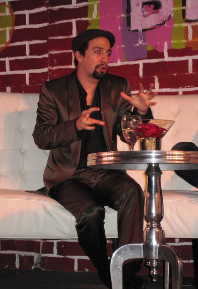 Lin-Manuel Miranda describes his life and work at the 2009 Claridad Gala Dinner, hosted at the La Concha Hotel in San Juan, Puerto Rico.